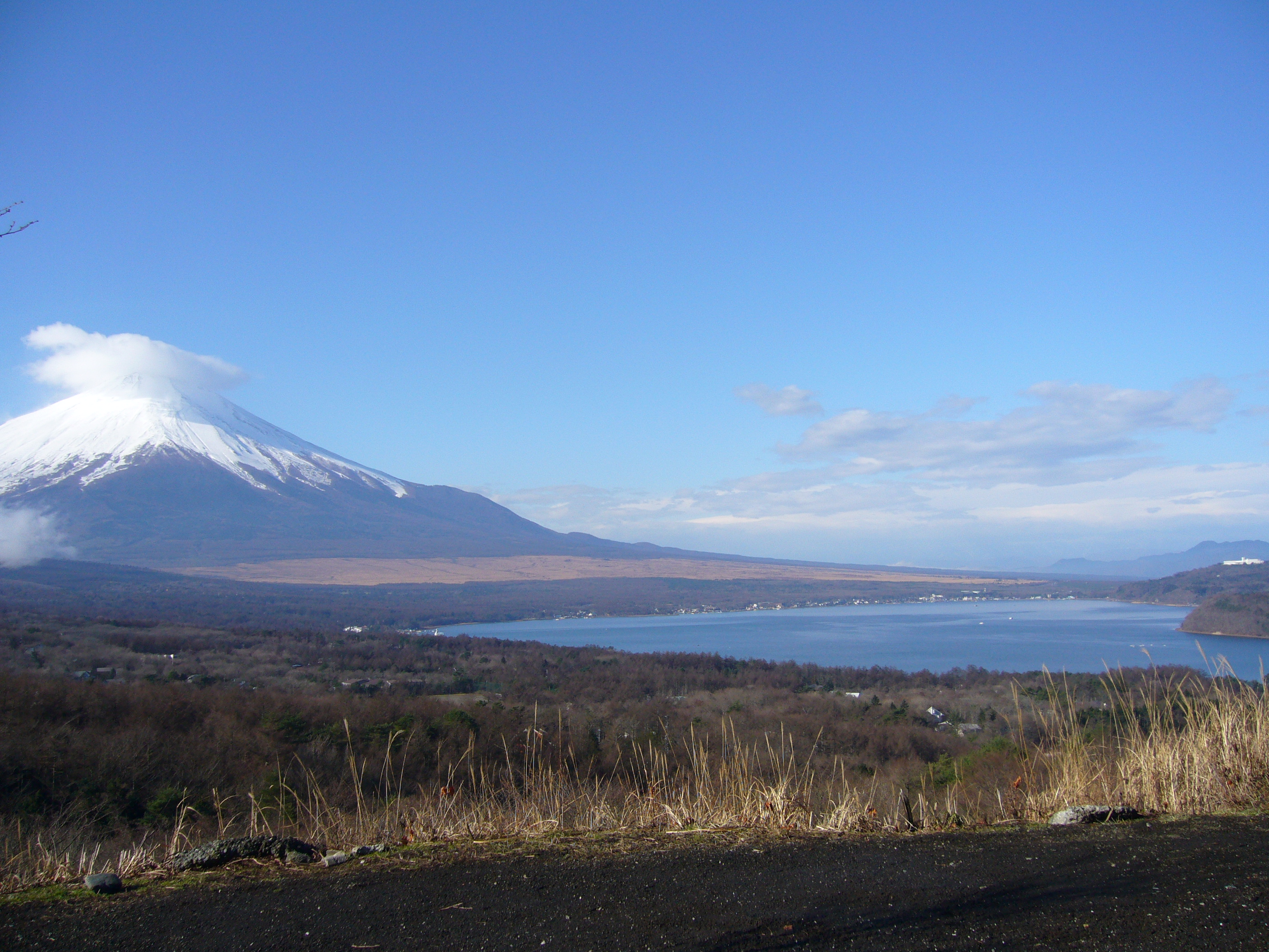 Lake Yamanaka in Yamanashi, Japan. A view from around here.